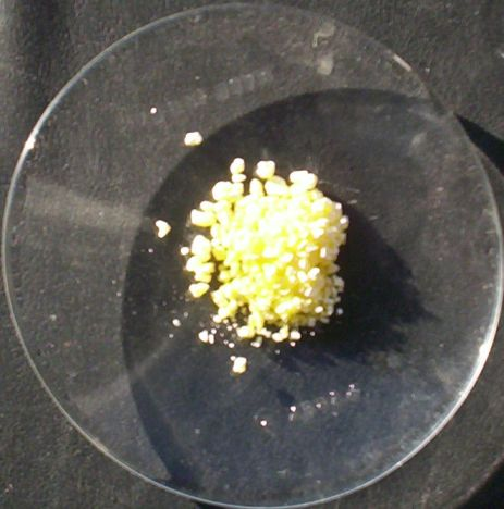 A sample of niobium(V) chloride (NbCl5). The picture was taken in the open air, and a white crust of niobium(V) oxide (Nb2O5) + probably niobium(V) oxychloride (NbOCl3) can be seen on the sample.